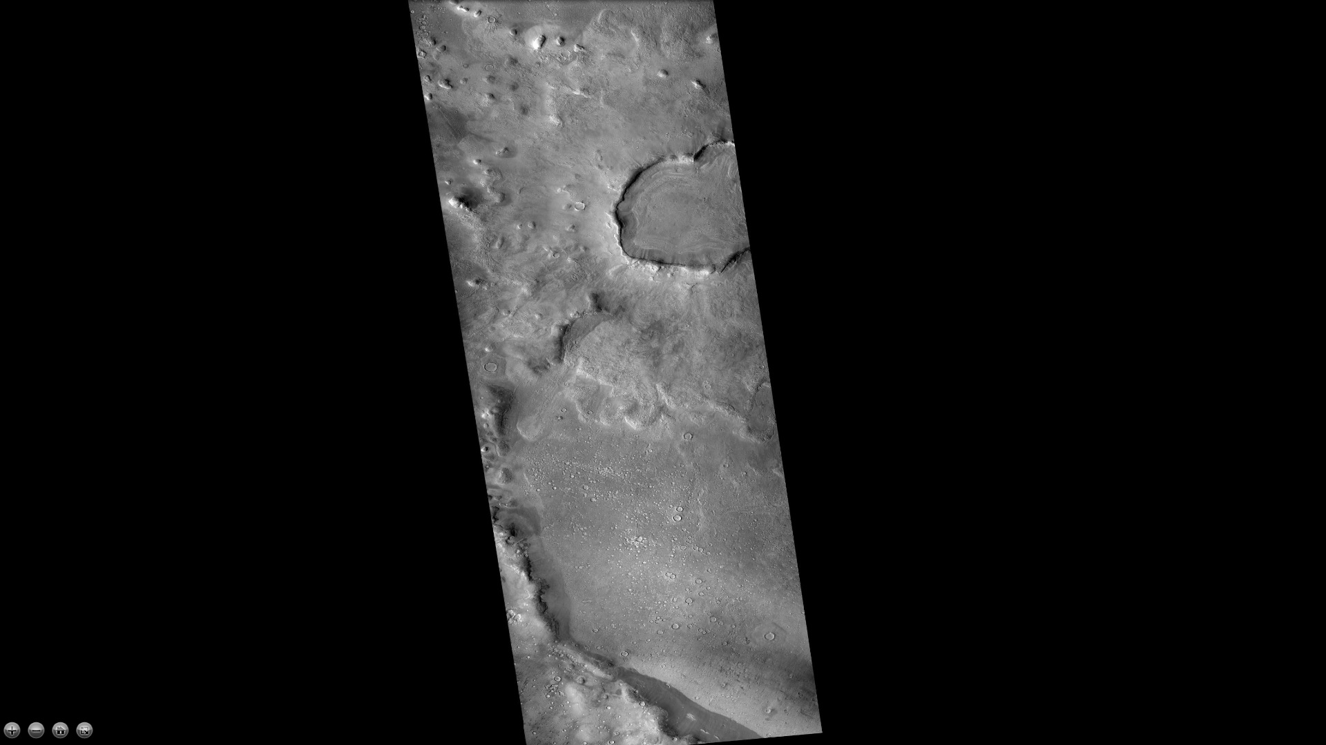 Tyndall Crater, as seen by ctx